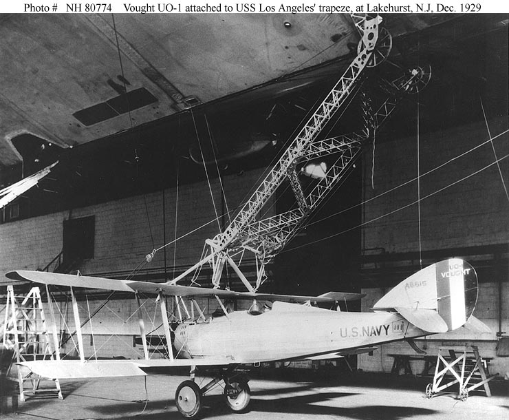 Attached to the trapeze of USS Los Angeles (ZR-3), during mating experiments in the airship hangar at Naval Air Station Lakehurst, New Jersey, 15 December 1928.